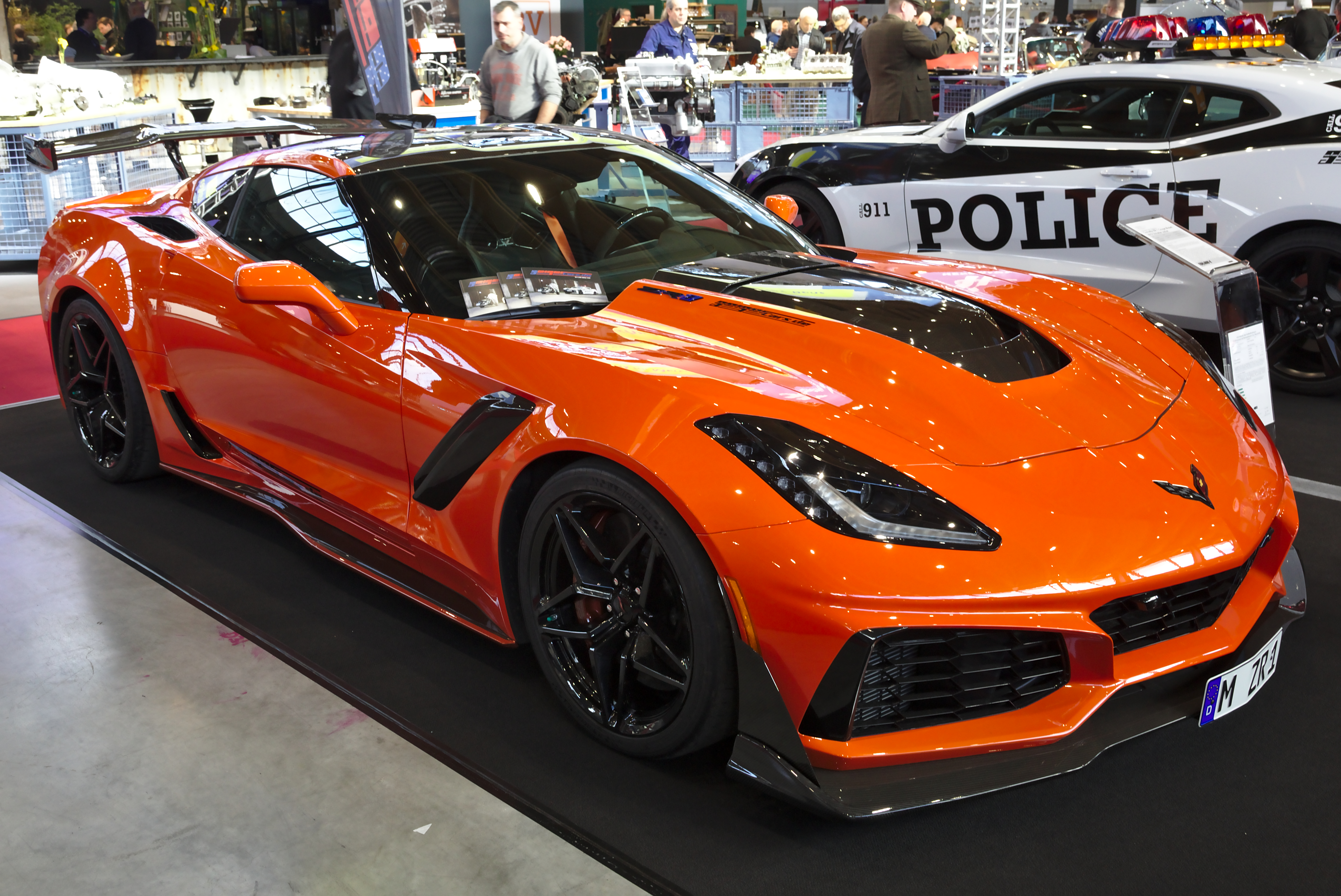 Corvette ZR1 at Retro Classics 2019